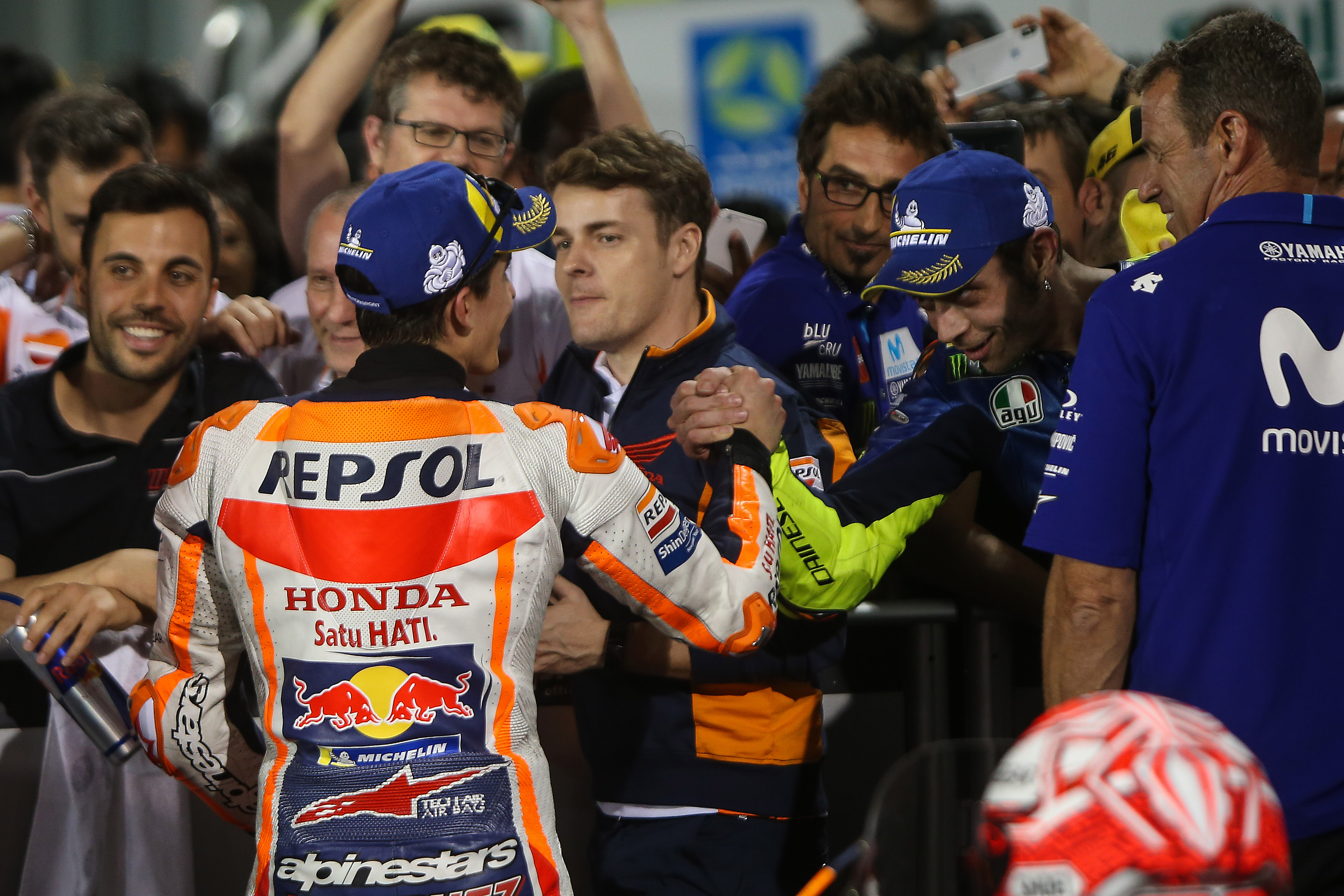 Marc Márquez and Valentino Rossi, shaking each others' hand at parc fermé after finishing in second and third place respectively at the 2018 Qatar Grand Prix.